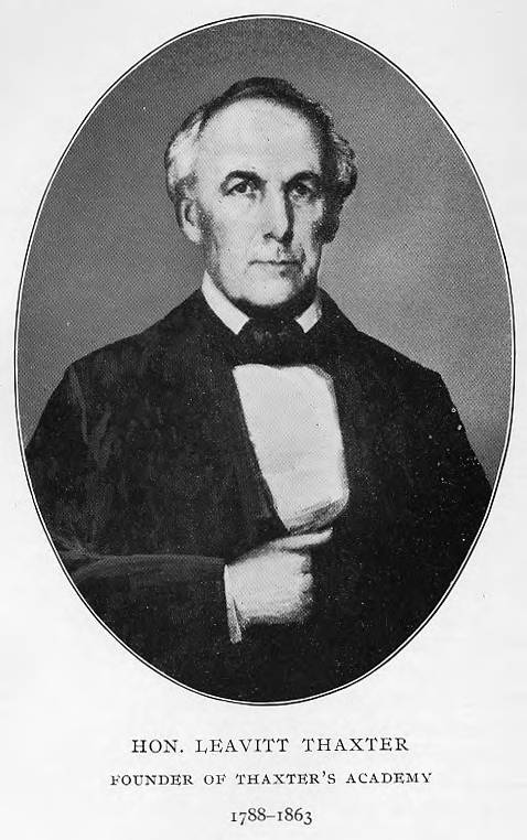 Hon. Leavitt Thaxter (1788–1863), second son of Parson Joseph Thaxter, was a Edgartown, Massachusetts, educator. He was the founder of Thaxter Academy, a private school in Edgartown. Of Leavitt Thaxter, Martha's Vineyard historian Charles Banks wrote: "His human sympathies led him to entertain a practical interest in the remnants of the tribe of Indians living in the town, and in 1836, having been made their legal guardian, he devoted nearly twenty years' service to their welfare. Such was the confidence inspired by his execution of this apparently thankless task, that he was always after regarded by them as their trusted friend and counsellor, to whom they constantly came for advice and encouragement." (Charles Banks, The History of Martha's Vineyard, Dukes County, Massachusetts, in Three Volumes. Vol. 2, George H. Dean, Boston, 1911, pp. 191-193)[1]